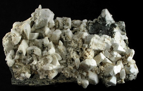 Albite (Var.: Pericline) Locality: Moar Alp, Habach valley, Hohe Tauern Mts, Salzburg, Austria (Locality at ) Size: 23.5 x 14.9 x 6.4 cm. Sharp, stout, lustrous, pearlescent albite variety pericline crystals to 6.4 cm richly cover an impressive, large cabinet specimen from the Habach Valley of Austria. Some of the crystals are distinctive albite twins. This is a dramatic and showy large piece, with rich crystal coverage and is minimally impacted by the growth contact on the large crystal, which has re-crystallized. From the collection of noted Alpine collector, Rolf Wein.